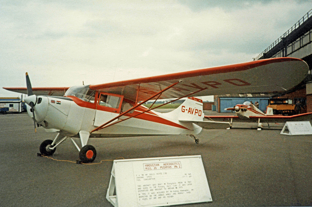 Hindustan HUL-26 Pushpak G-AVPO at Chester Airfield Wales in 1985